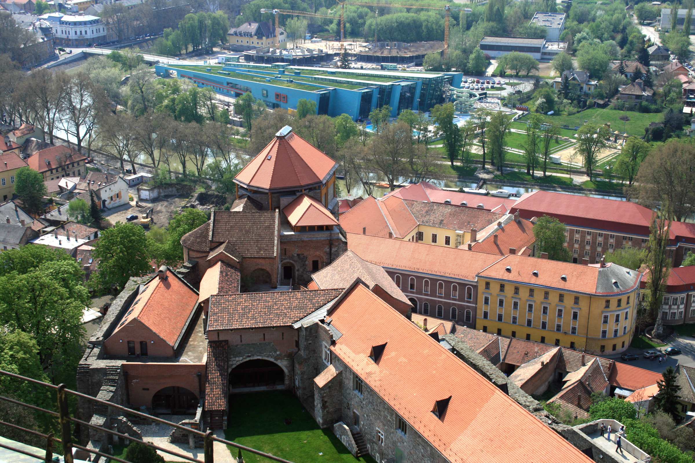 View from tower of Esztergom Basilica, Esztergom, Hungary